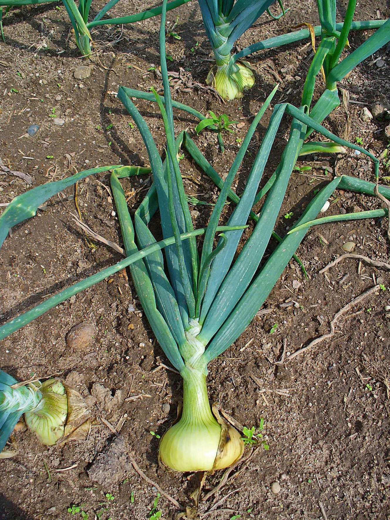 Allium cepa, Alliaceae, Garden Onion, habitus. Karlsruhe, Germany. The fresh bulbs are used in homeopathy as remedy: Allium cepa (All-c.)